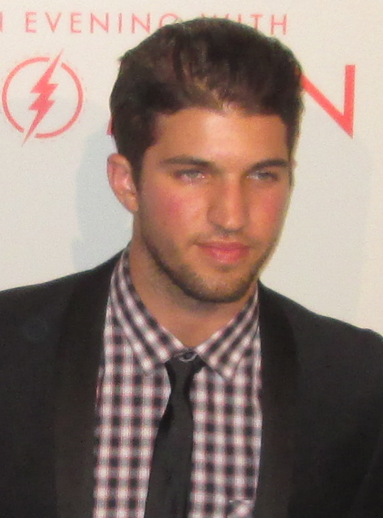 Bryan Craig at The L.A. Gay & Lesbian Center's 2014 An Evening with Women event 2014.